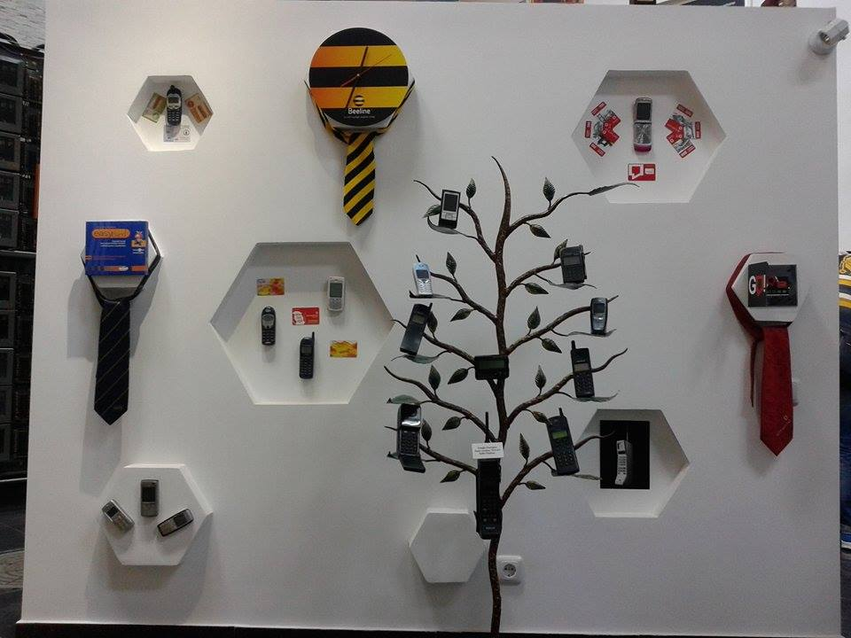 SIM card and ArmenTel brand evolution, history of mobile phones